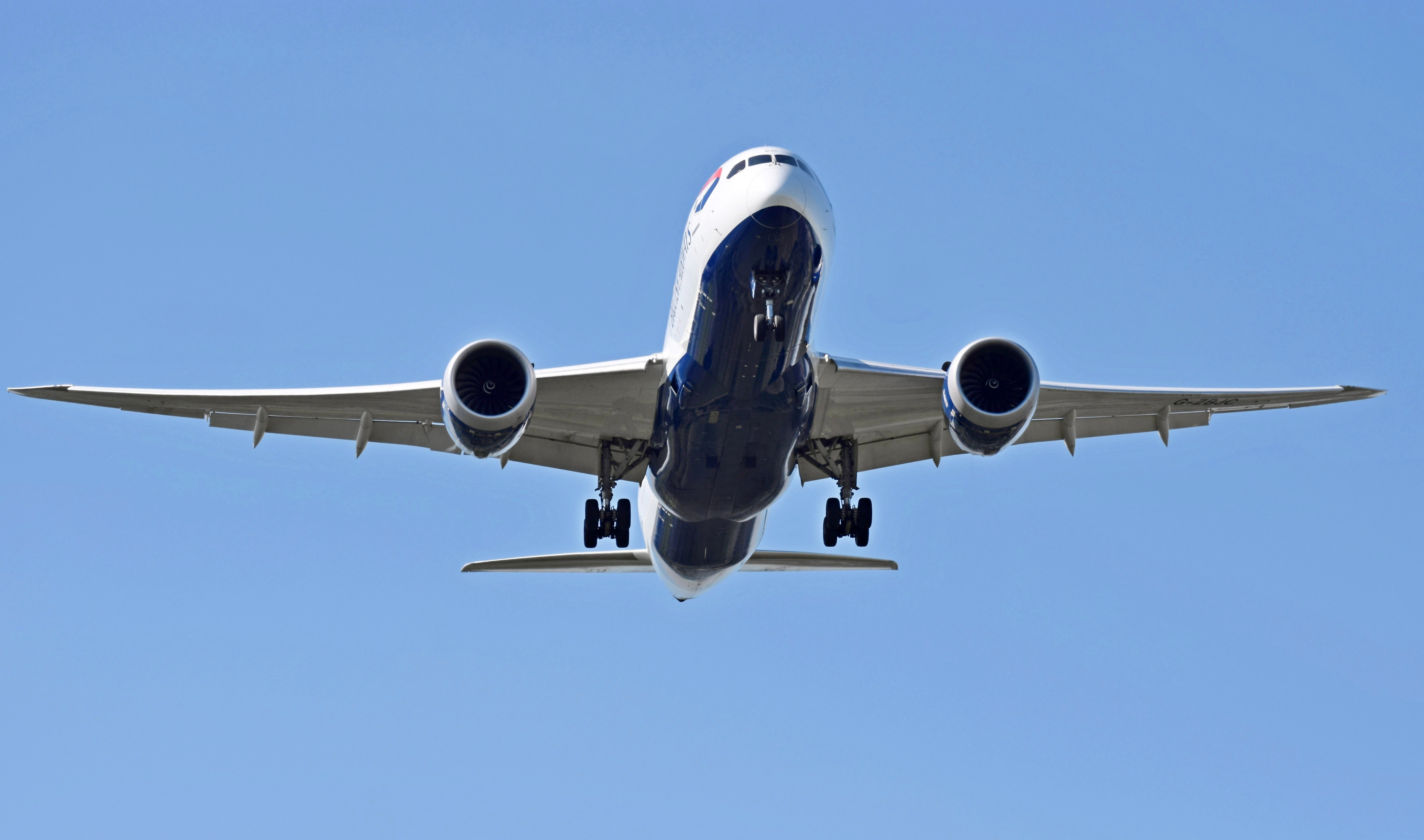 British Airways Boeing 787-8 Dreamliner (G-ZBJC) arrives London Heathrow Airport, England.